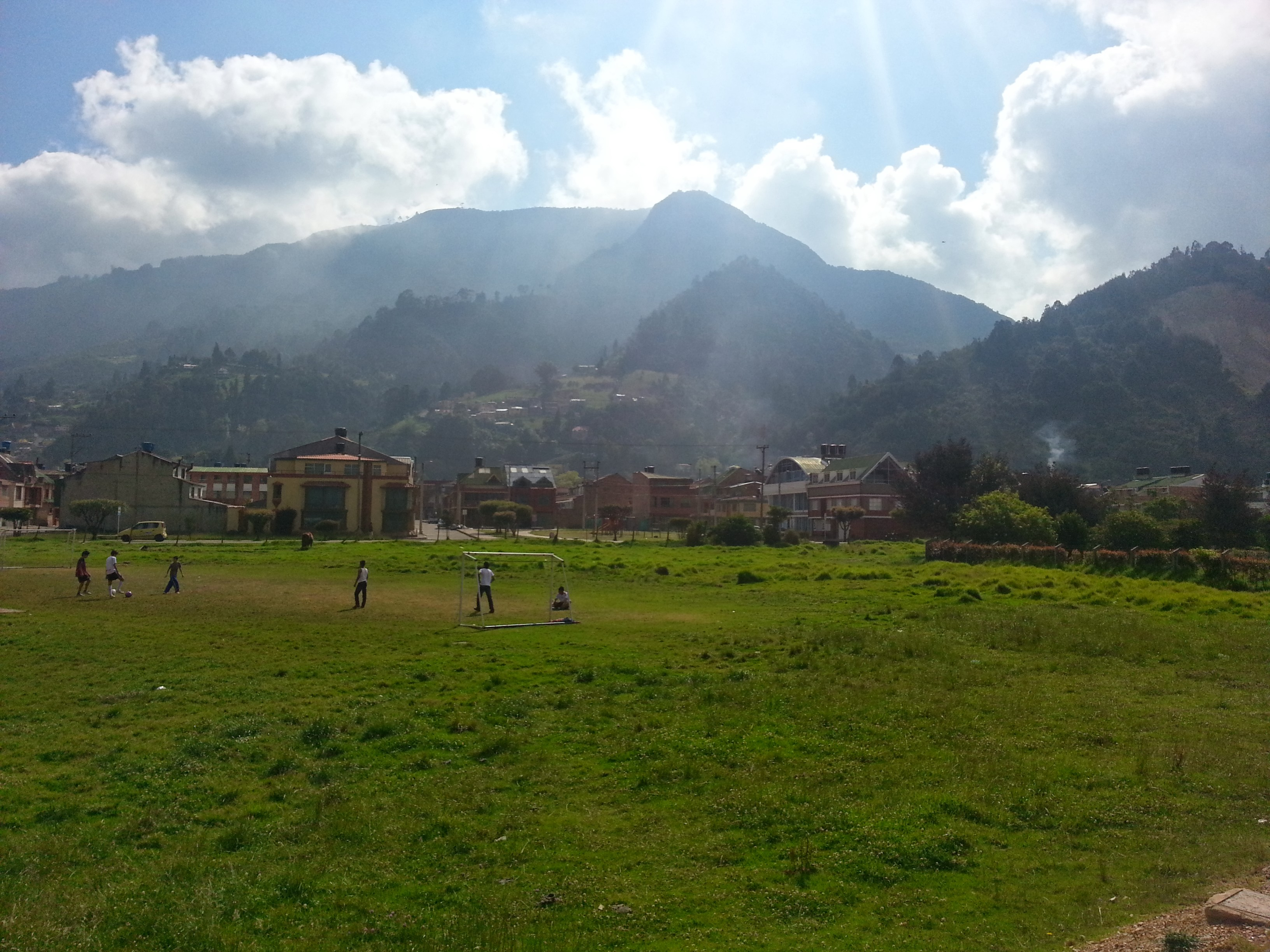 Pionono Hill in Sopo Cundinamarca, Colombia